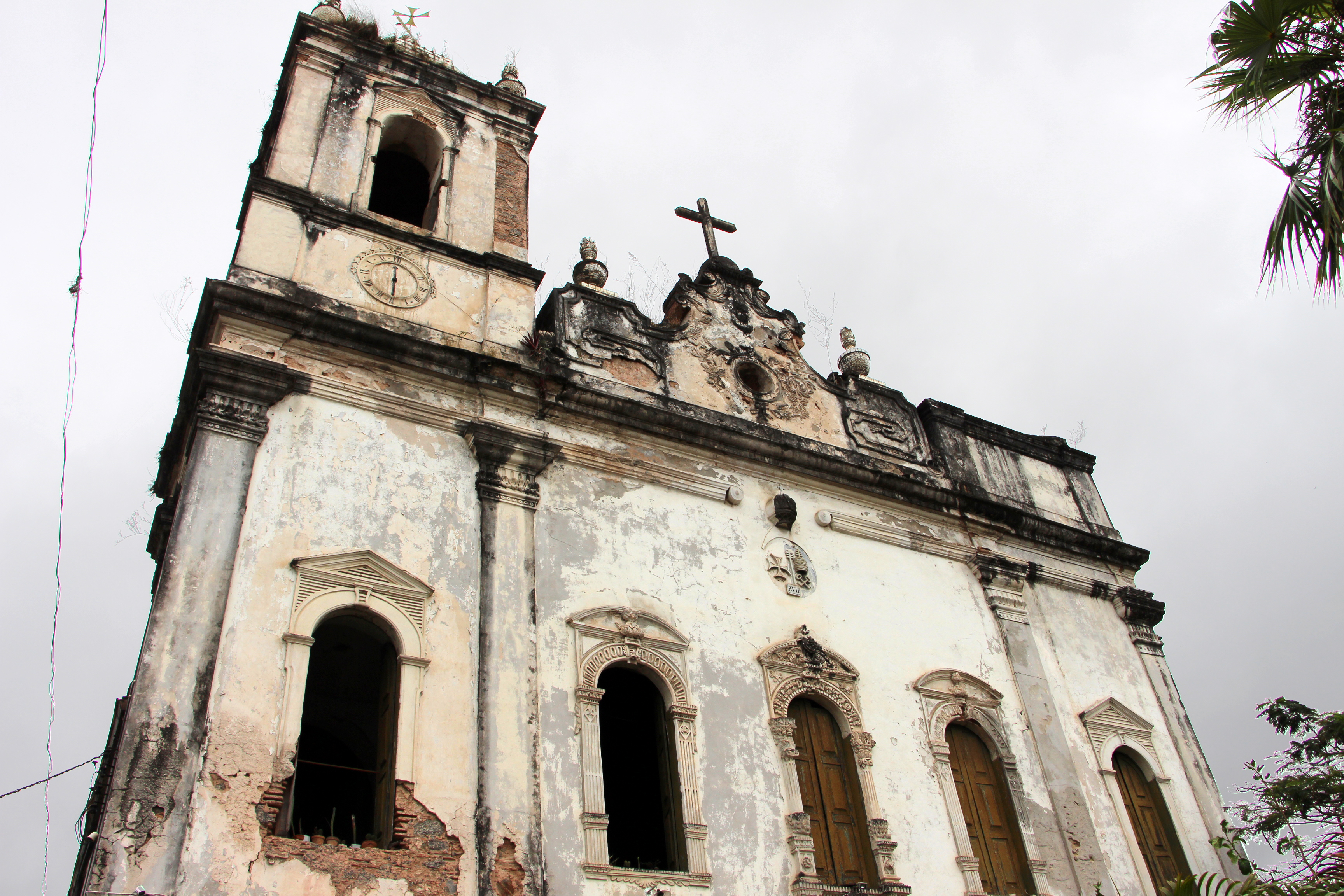 Churches in Salvador, Bahia